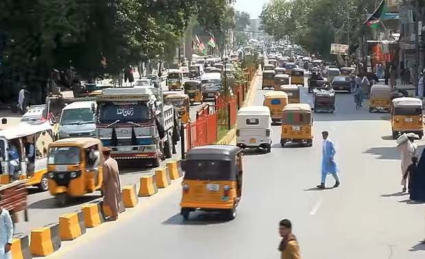 Jalalabad street with rickshaws